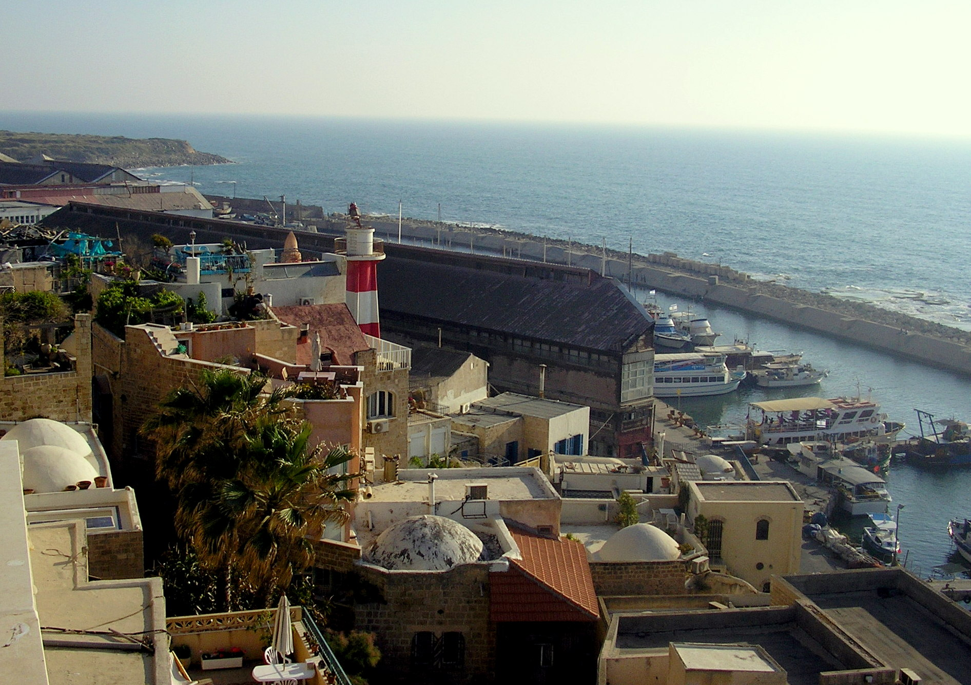 port of jaffa, Israel